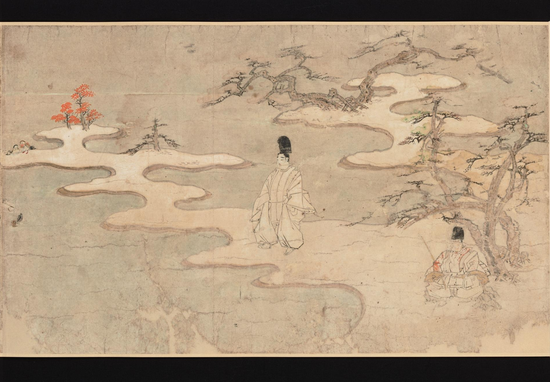 Sumiyoshi monogatari emaki. Tokyo National Museum. Part 1.